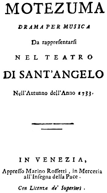 Cover of the booklet of Motezuma, opera composed by Vivaldi